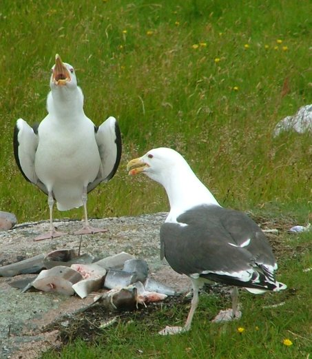 Photo taken by me in Norway